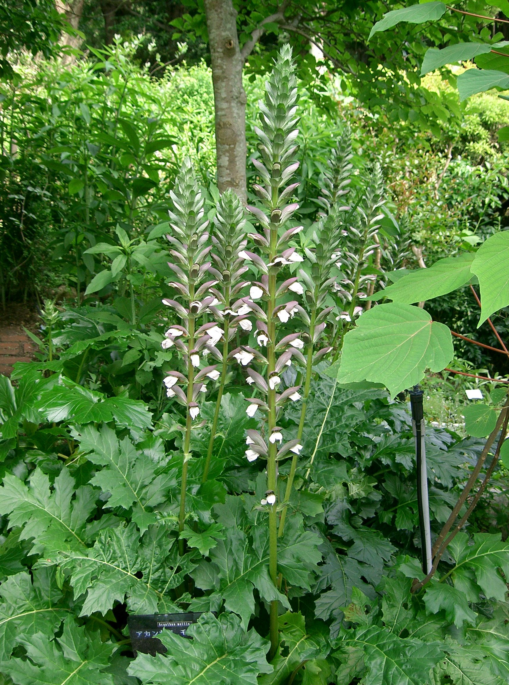 Acanthus mollis